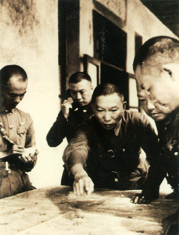 General Xue Yue discusses strategy.